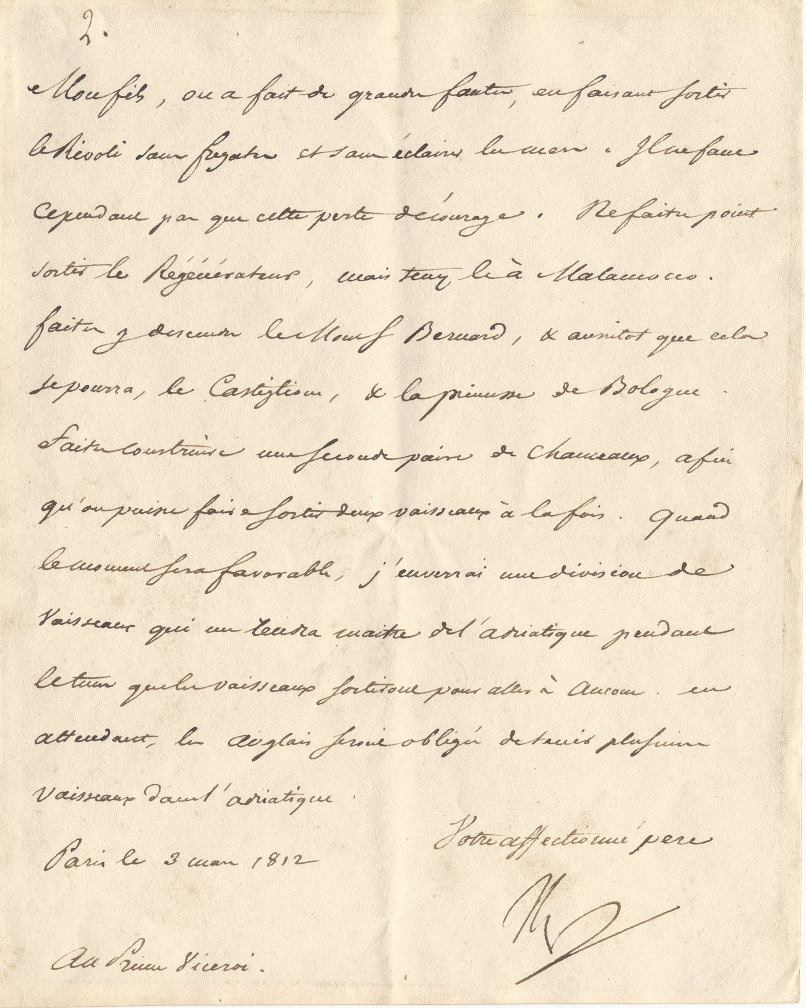 Letter to to Eugene Napoleon, Viceroy of Italy (Paris, 03-03-1812) “My son, you have made a grave mistake in allowing the Rivoli to leave without a frigate and without clearing the seas. It is not however necessary to allow this loss to discourage. Do not allow the Regeneratore to leave, but hold it at Malamocco [off Venice]. Send down to that point the Mont-Saint-Bernard, and, as soon as you can, the Castiglione and the Princess-de-Bologne. Have another pair of holdings constructed, so that we can allow two vessels to depart at the same time. When the moment is favorable, I will send a division of vessels, which will make me master of the Adriatic when the vessels depart to go to Ancone. In the meanwhile, the English will be forced to keep many vessels in the Adriatic.”